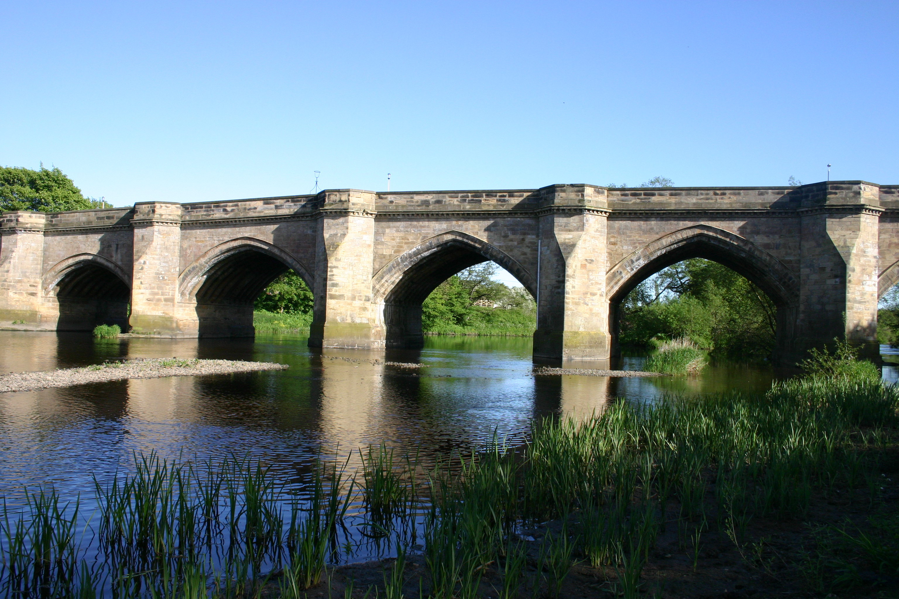 English stone built bridge 18th century